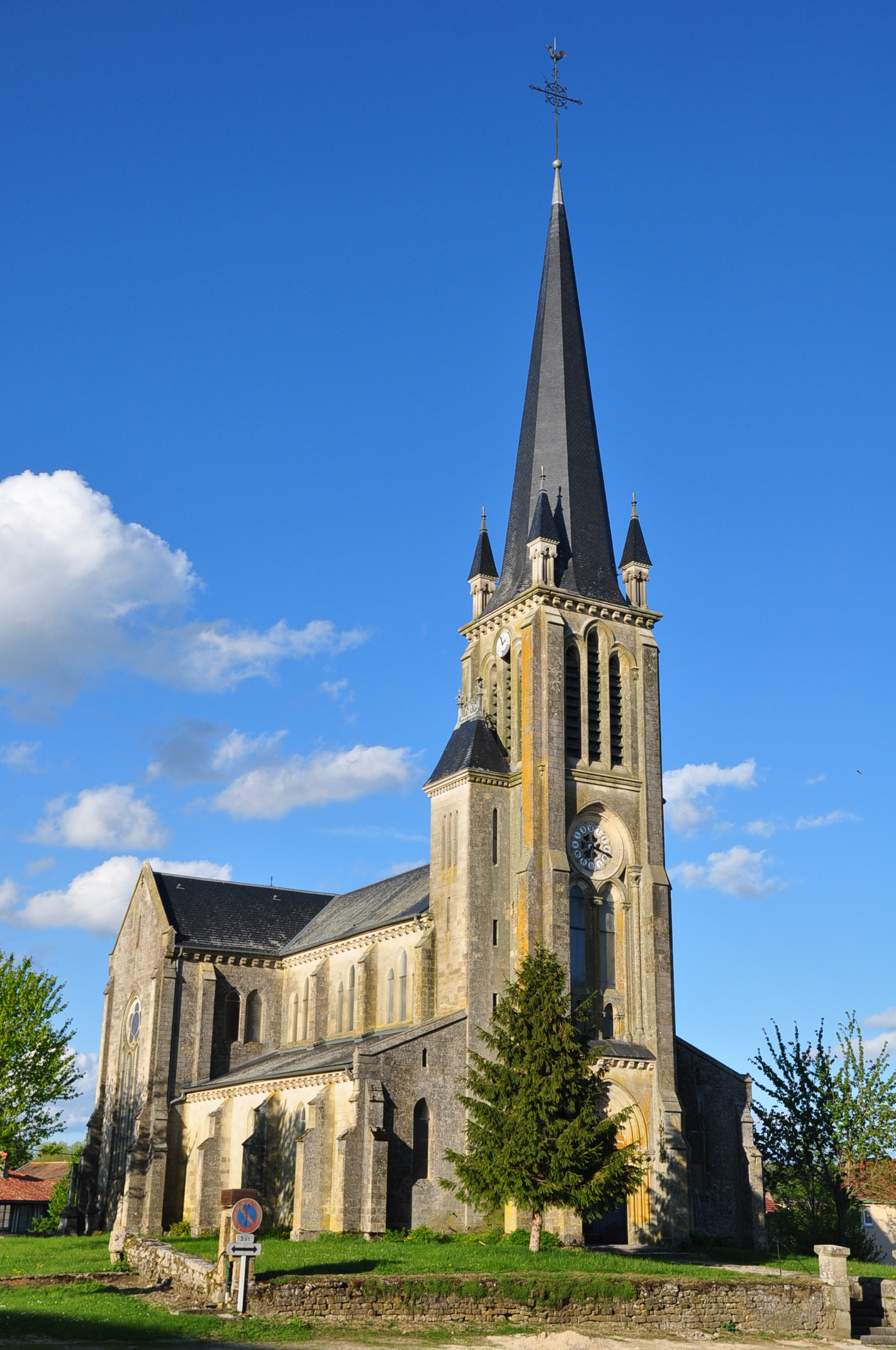 The Church of St. Catherine in Waly was consecrated September 26, 1897 by the Bishop of Verdun. In Gothic Revival style, the building contains carved furniture (canton Seuil-d'Argonne, arrondissement Bar-le-Duc, Meuse department, Lorraine region, France).